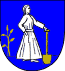 Mnich COA